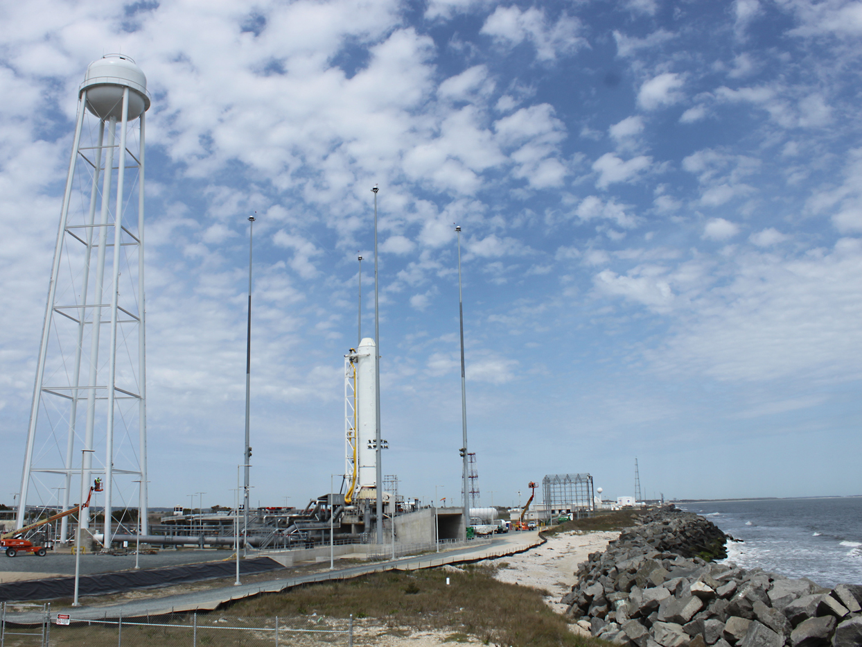 The first stage of Orbital Sciences Corporation’s Antares rocket stands in launch position during pathfinder operations at NASA’s Wallops Flight Facility and the Mid-Atlantic Regional Spaceport. Orbital’s Antares launch vehicle will be conducting missions for NASA under its Commercial Orbital Transportation Service Program and Cargo Resupply Services contract.